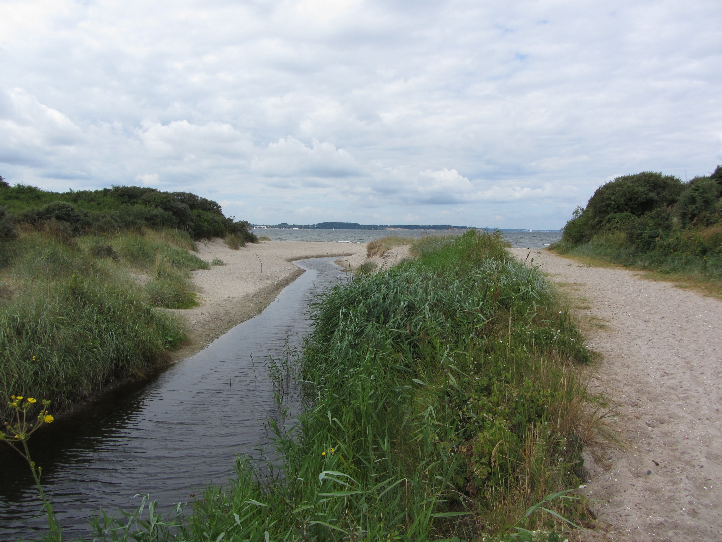 Harkenbäk at mouth in the baltic sea near Barendorf, district Nordwestmecklenburg, Mecklenburg-Vorpommern, Germany